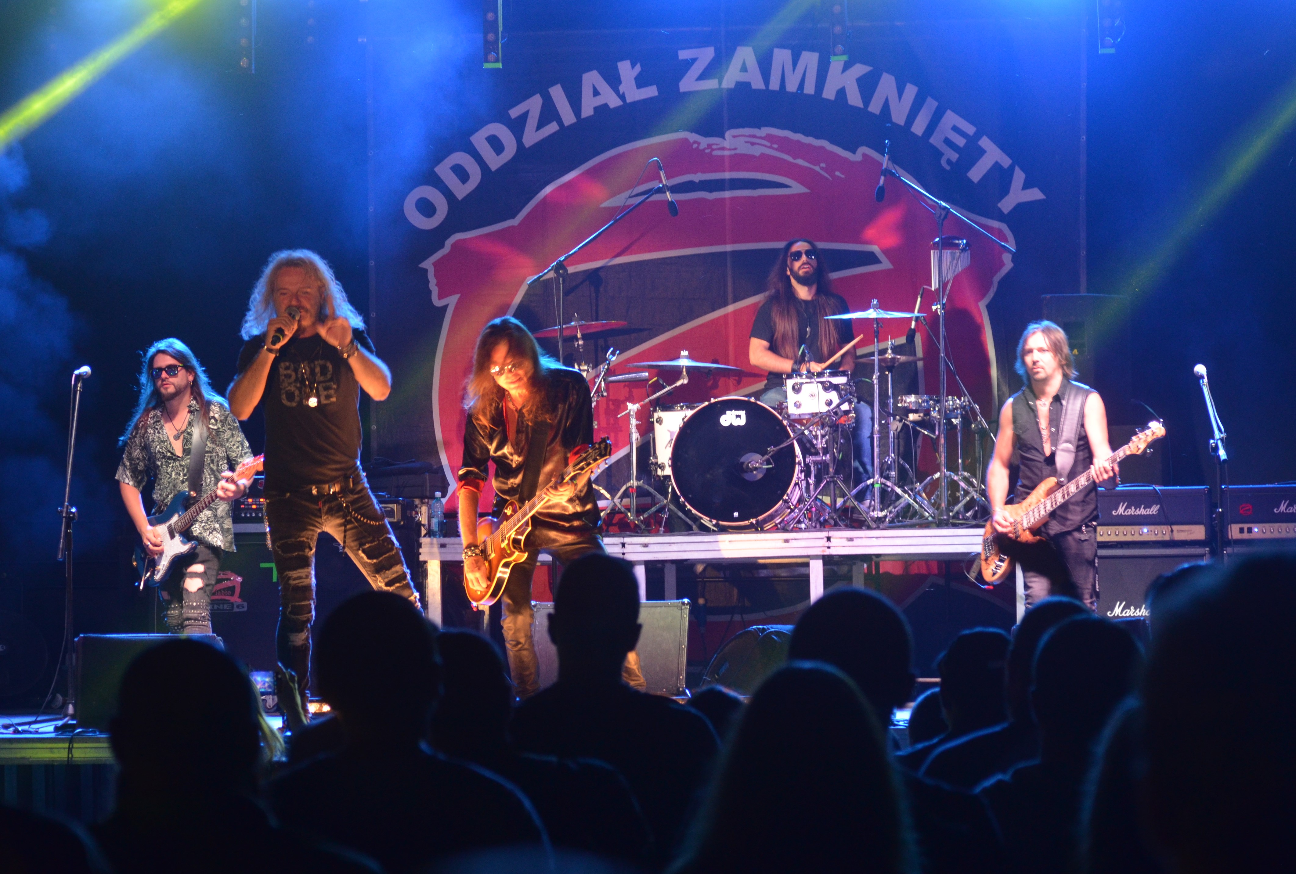 Farewell summer vacation at Sanok, Oddział Zamknięty, Poland.